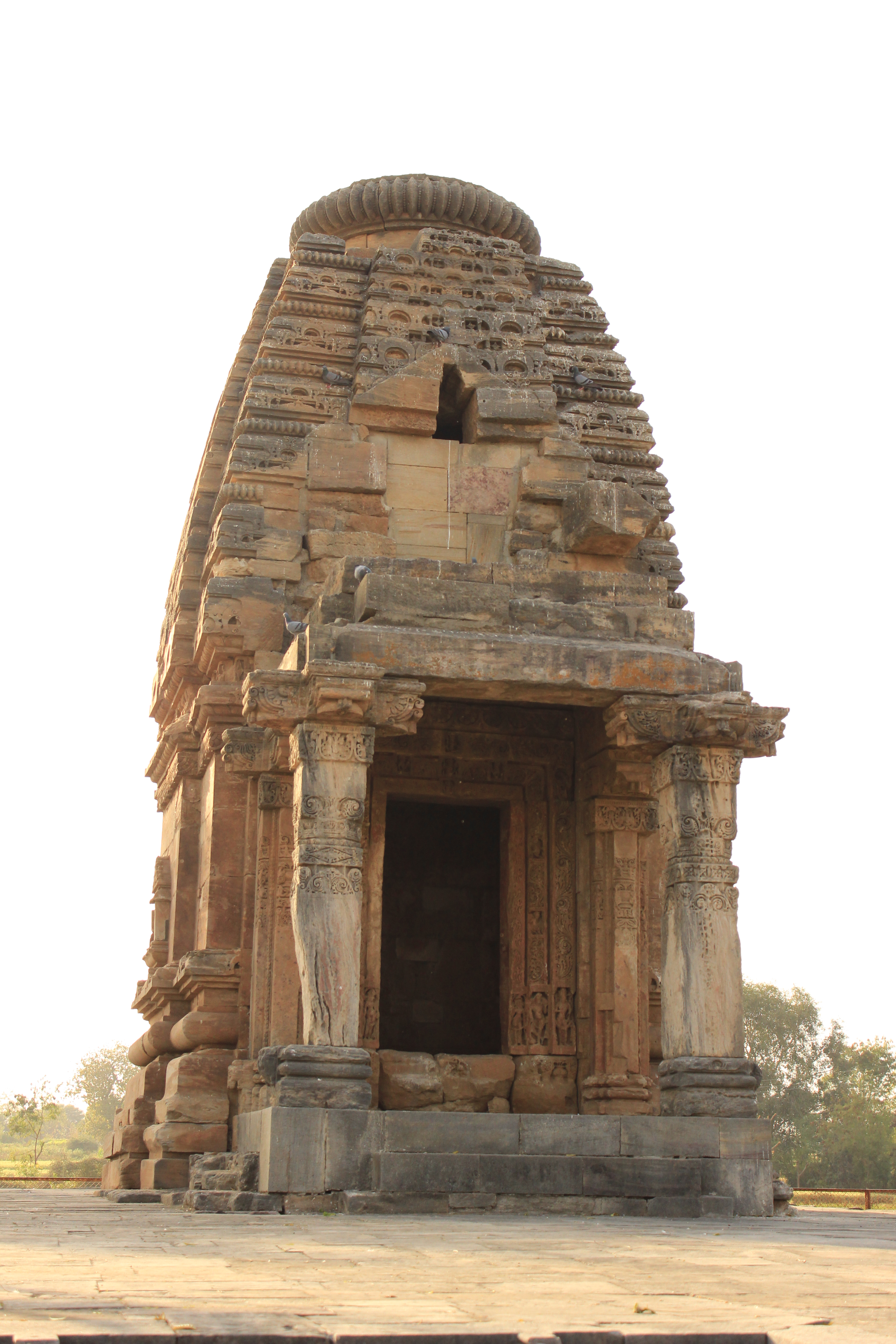 Shiva Mandir (No. I)